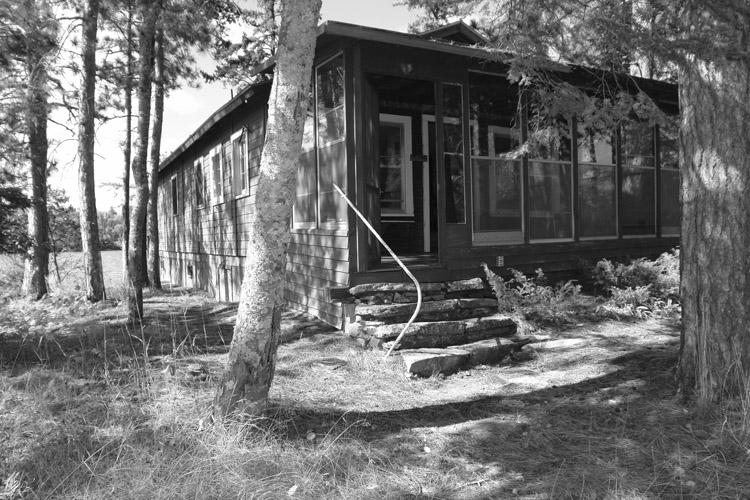 Chiperfield Cabin, William Ingersoll Estate, Ingersoll's Island, Sand Point Lake, Voyageurs National Park, Minnesota, USA